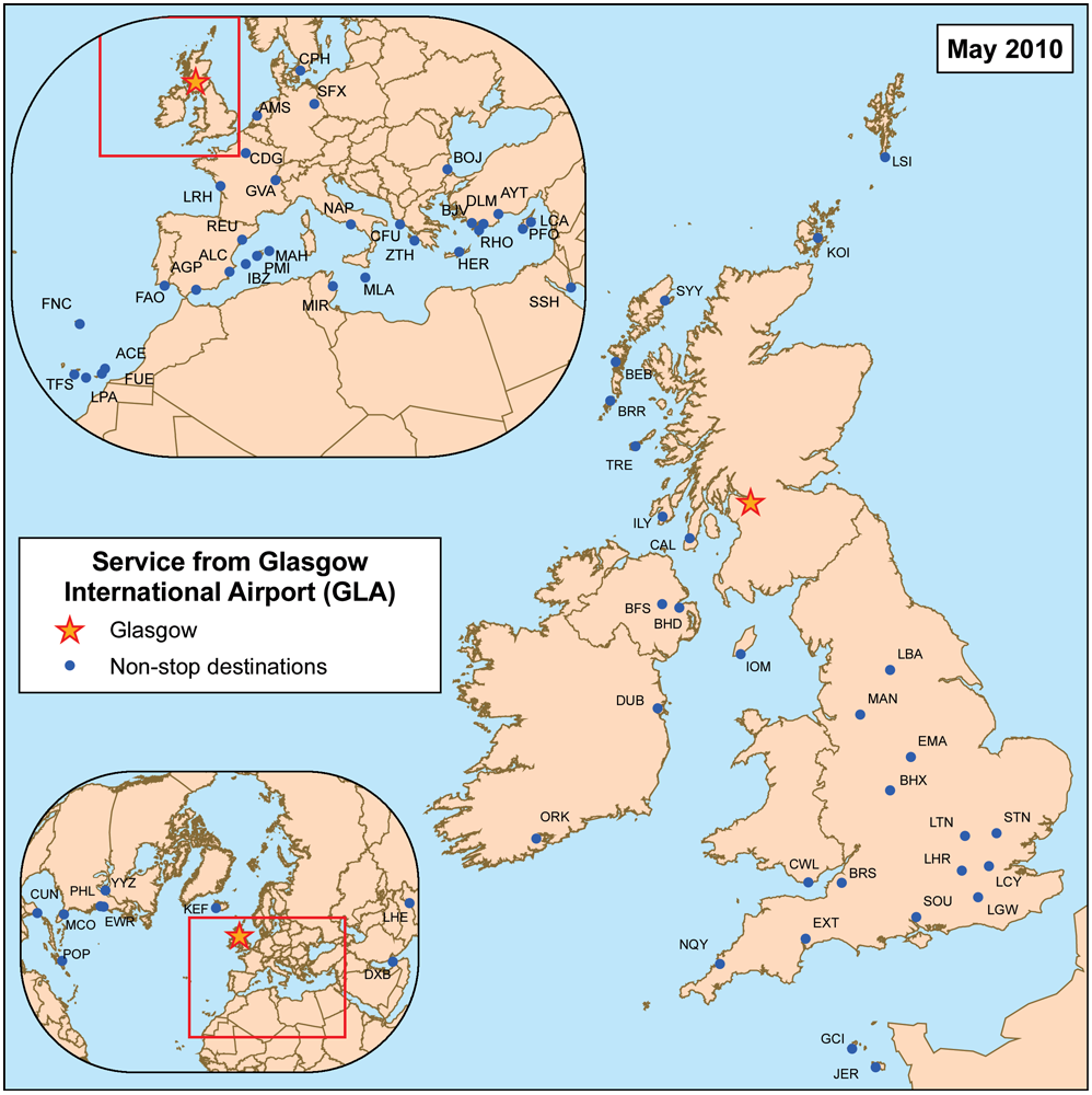 This is a route map for Glasgow International Airport as of May 2010. Map is an Azimuthal equidistant projection centered on the airport so straight lines from Glasgow are along great circle routes.